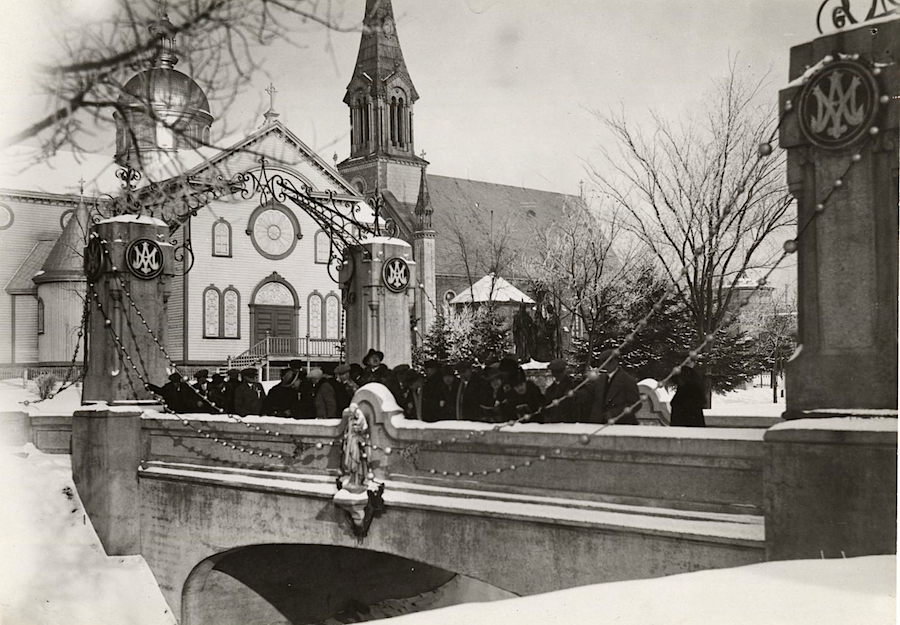 Pont des Chapelets